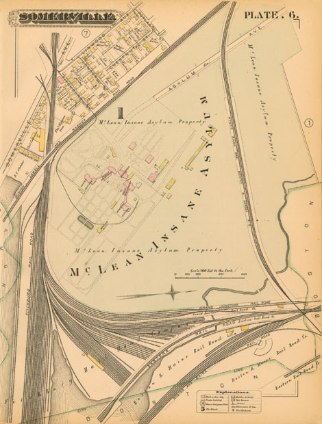 This is a map of the McLean Insane Asylum in 1884. This map is from an atlas of Somerville published by Hopkins. The original map is about 20"x29".